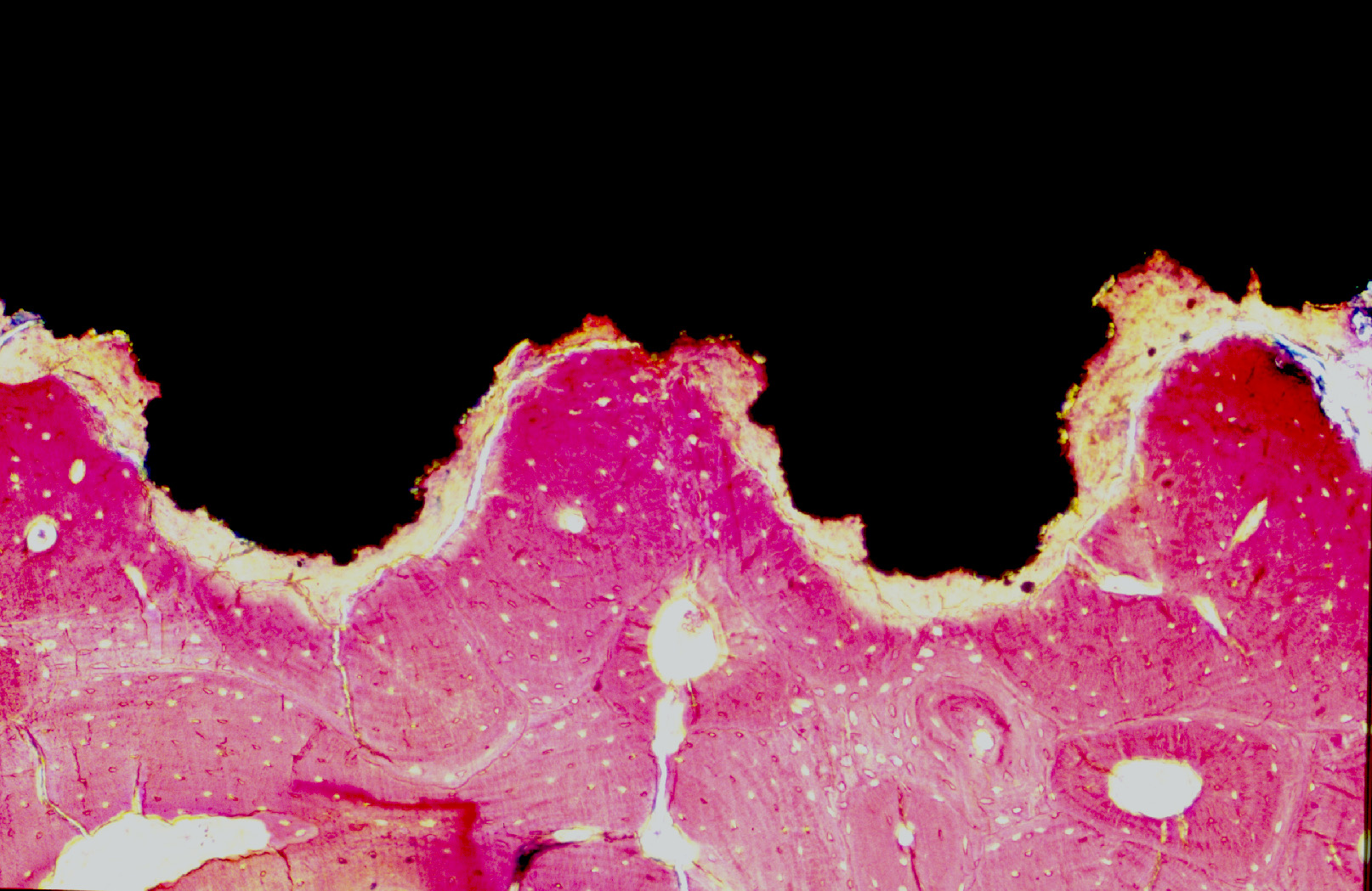 This slide shows a microscopic histological section of bone integrated to the titanium surface of a dental implant (black)